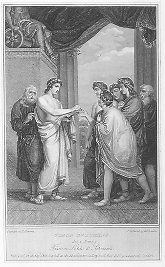 Timon of Athens: Act I, Scene 2: Timon's prodigality